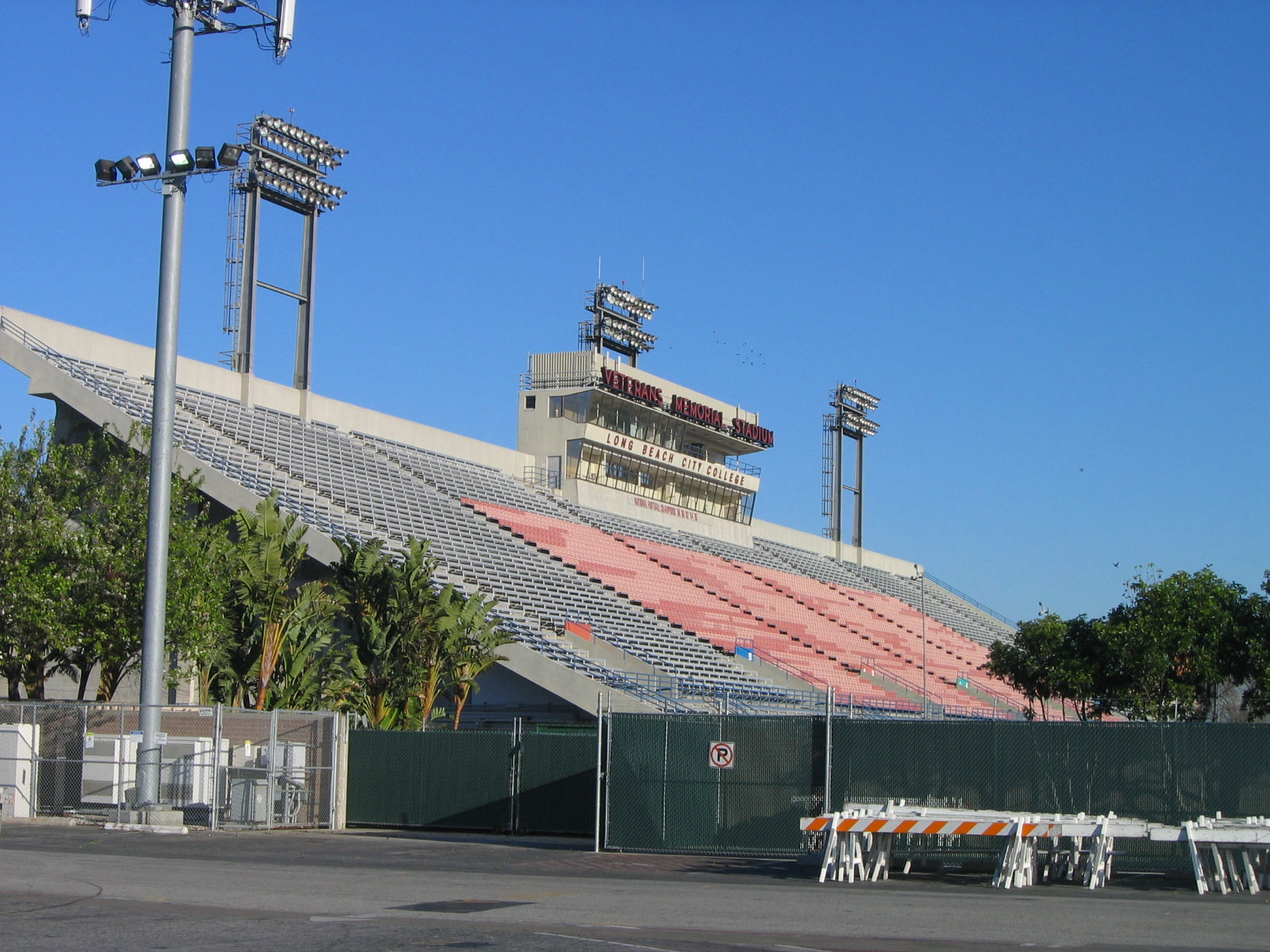 Football & Basketball Facilities Long Beach Community College Stadium